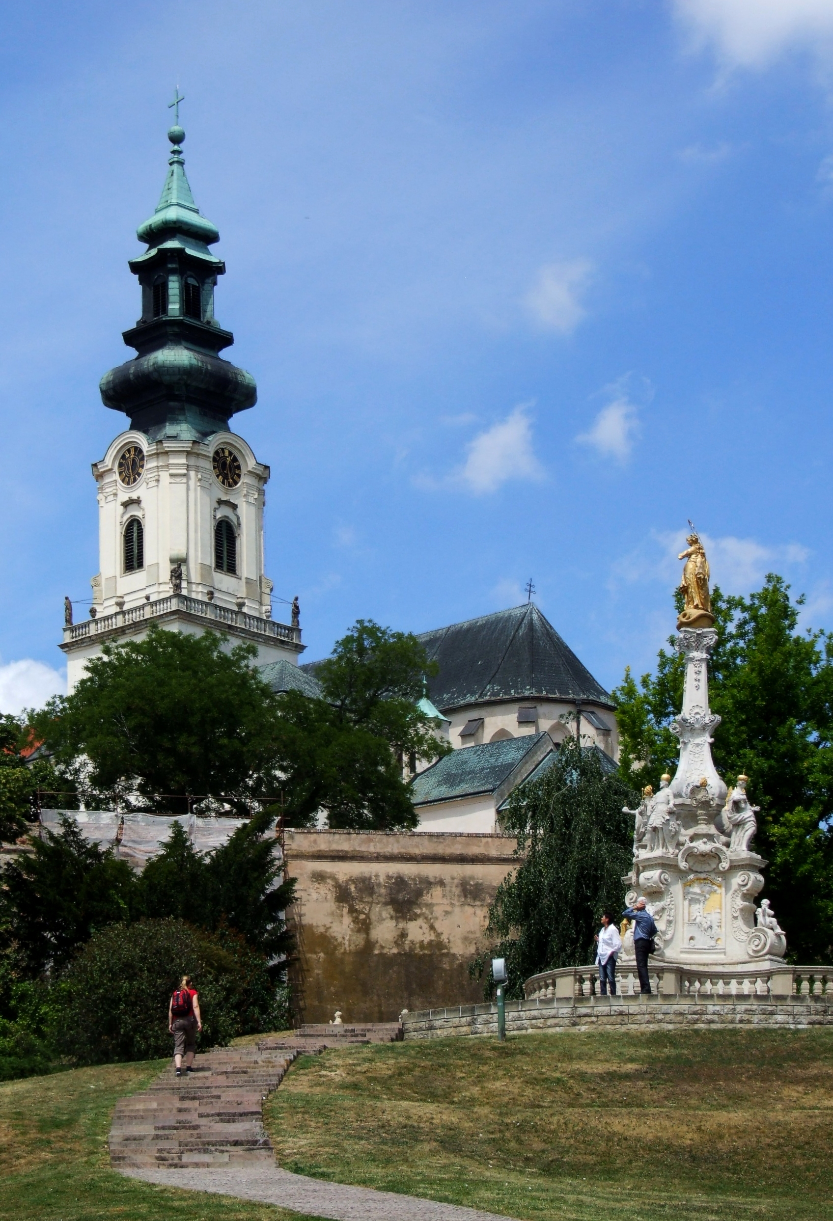 Cathedral Basilica of St Emmeram and Plague column in Nitra (Nyitra)